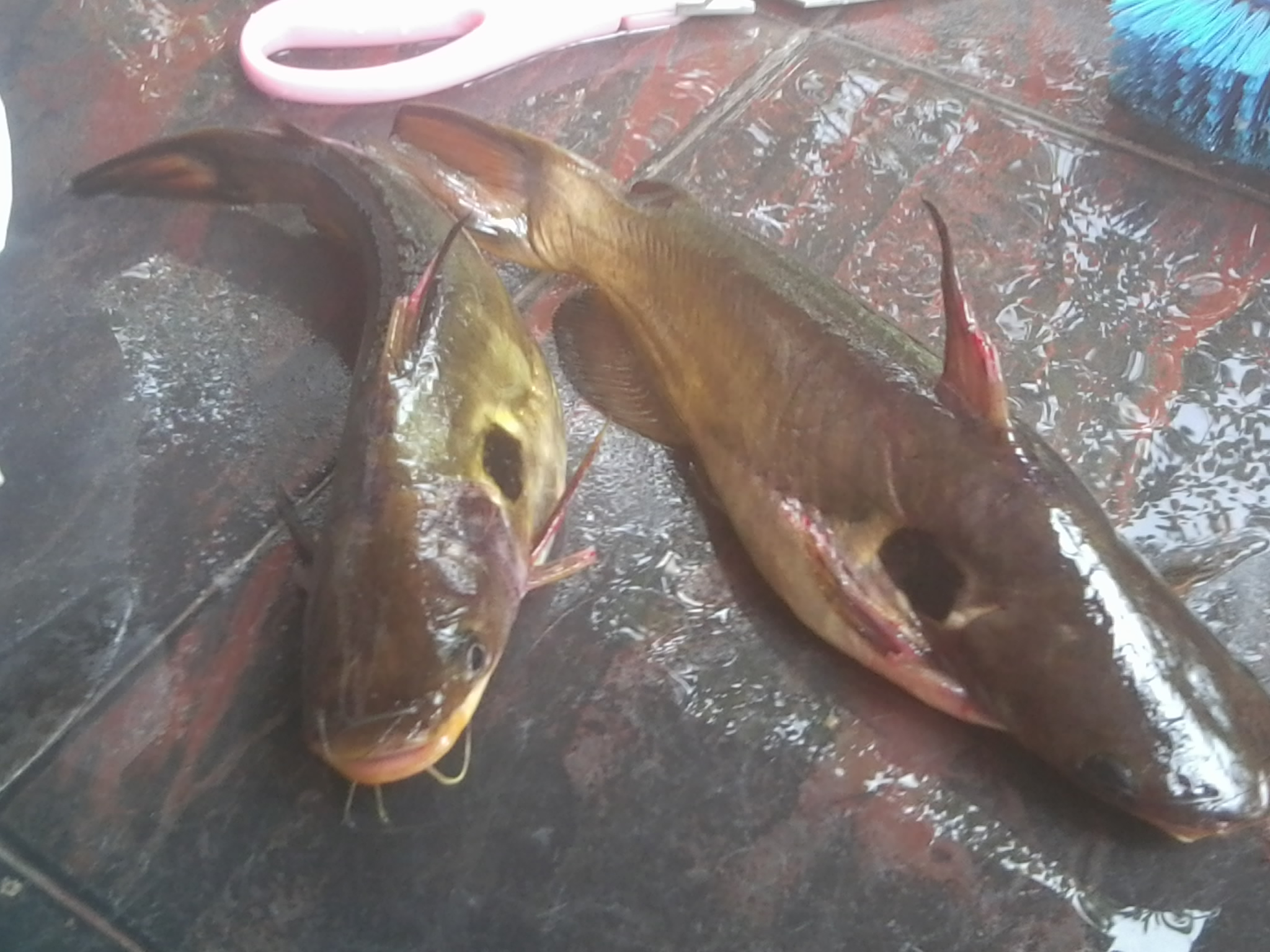 Horabagrus_brachysoma.a species of bagrid catfish endemic to Vembanadu Lake, Kerala, India